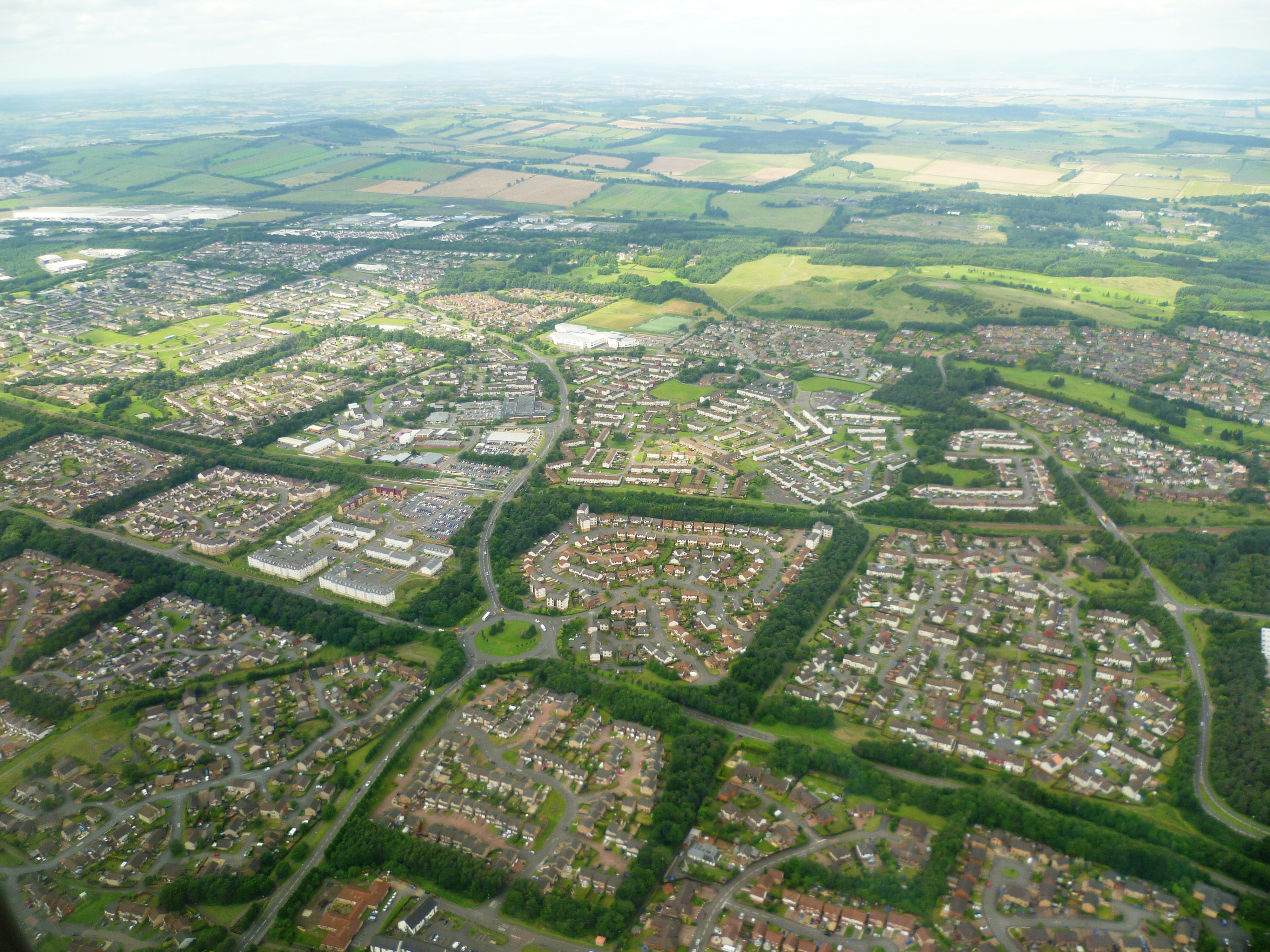 Showing the north-west of the town with the West Lothian countryside beyond. The view is centred on the Eliburn North Roundabout.